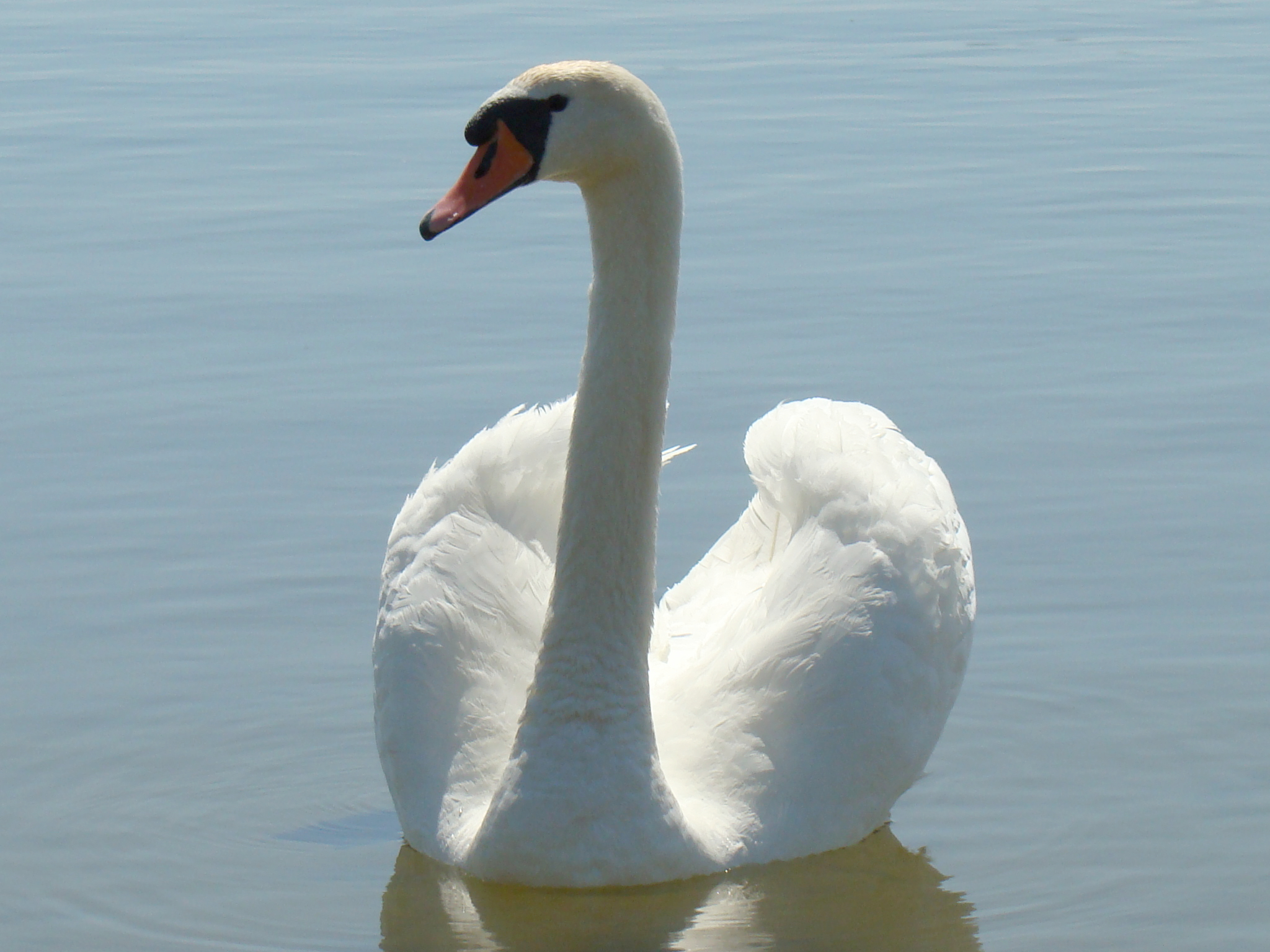 Photo of the Mute Swan (Cygnus olor) in in Raizgiai, Siauliai, Lithuania.